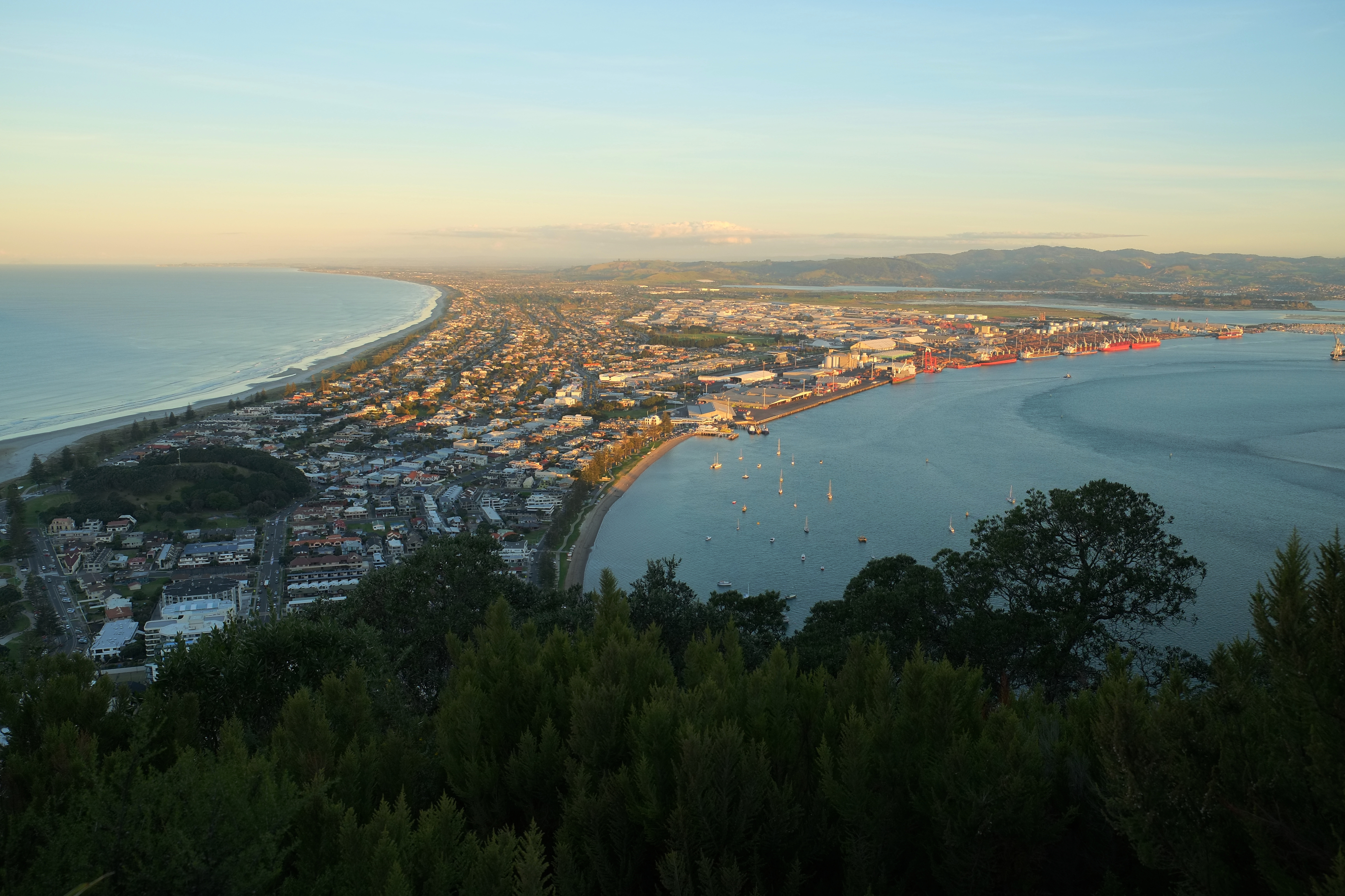 Evening view from the Mount over Mount Maunganui